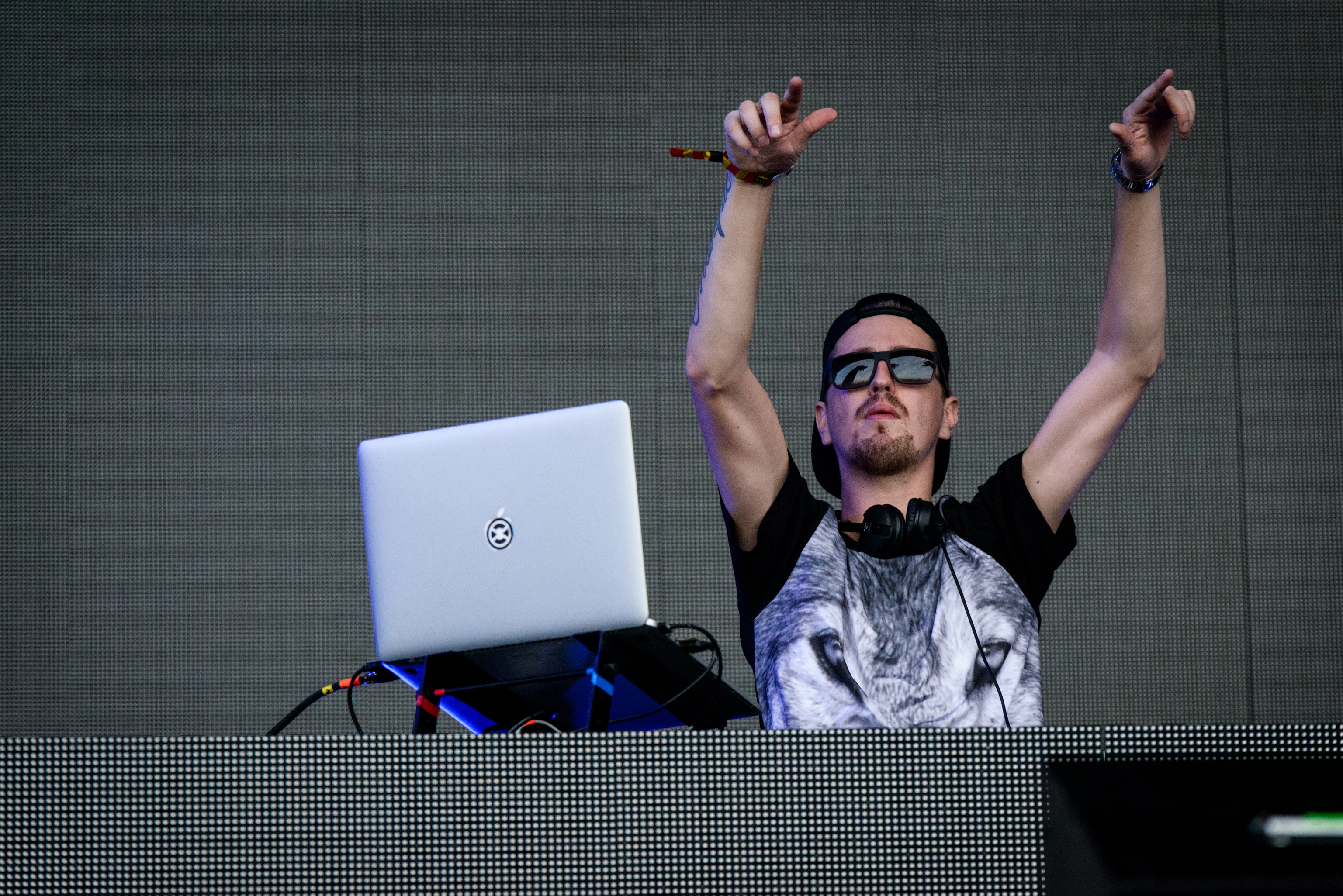 Robin Schulz @ Lollapalooza 2015